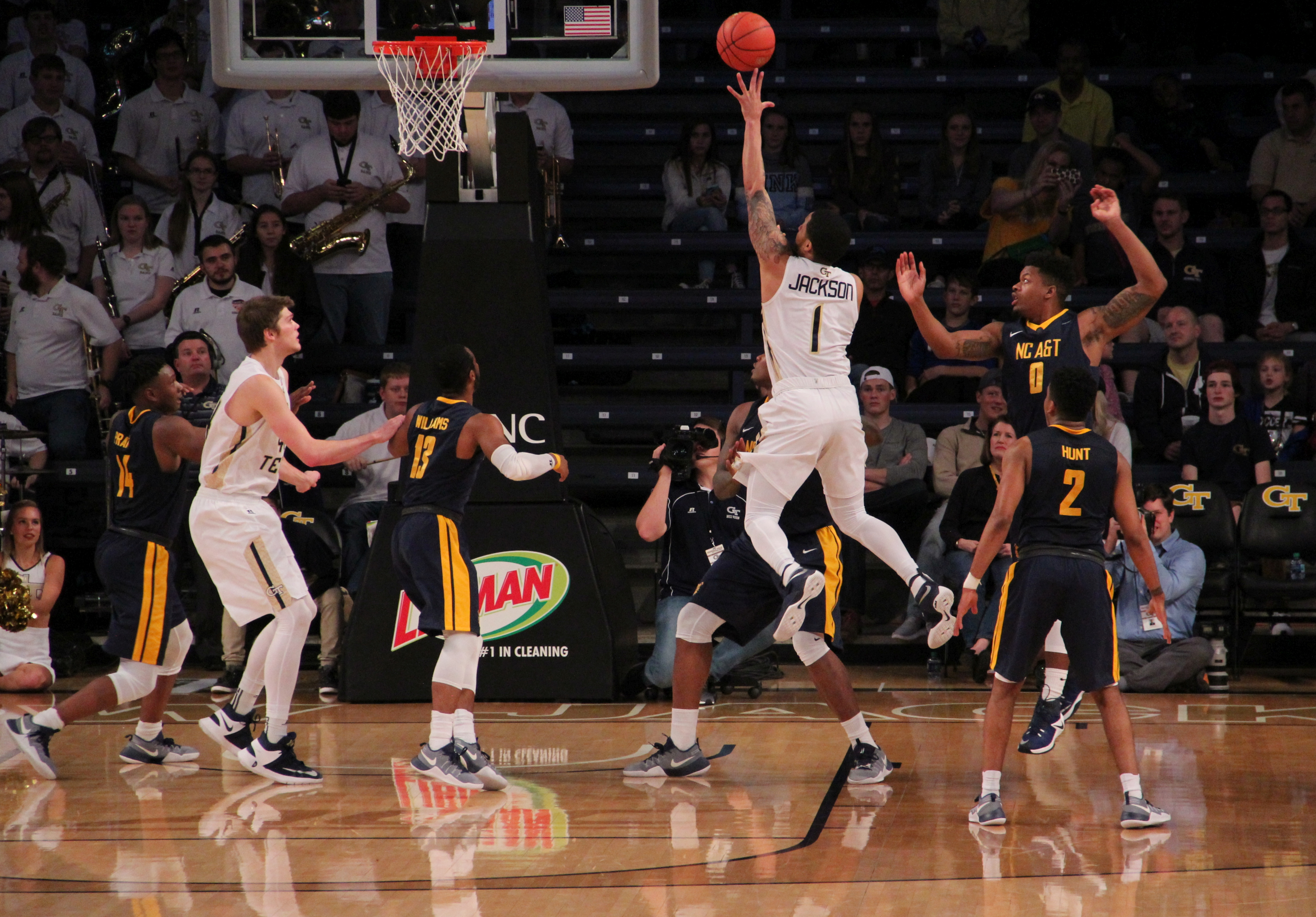 GT vs NC A&T basketball, December 2016